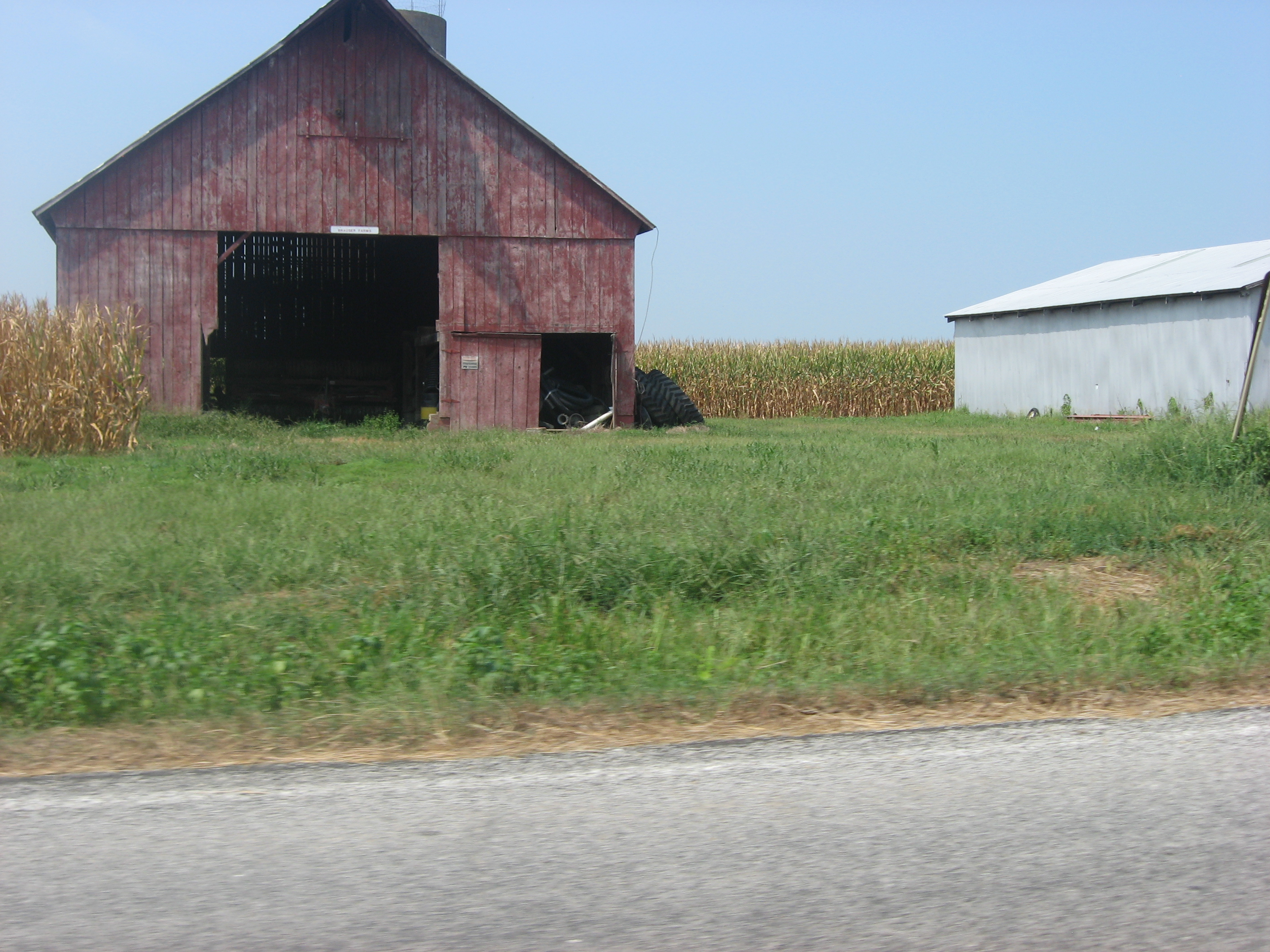 Two barns on the western side of State Road 69 on the western side of Hovey Lake, located southwest of Mount Vernon in Point Township, Posey County, Indiana, United States. The barns are two of several modern intrusions on the Hovey Lake-Klein Archeological Site, an important archaeological site.